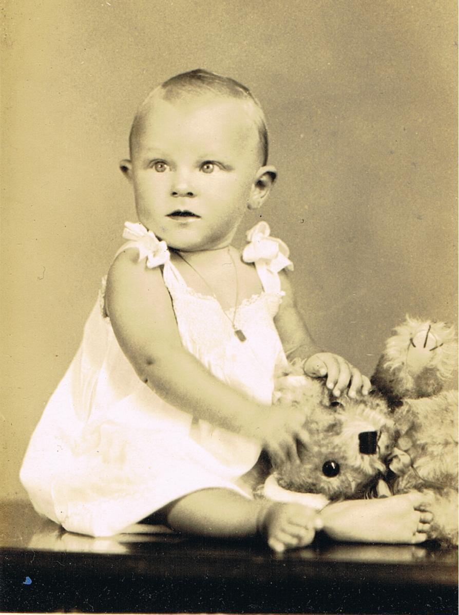 Photo taken when Teresa was living in Venezuela.